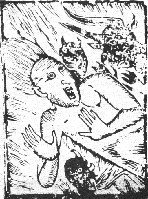 "Męka słyszenia" - woodcut of the unknown author, for the poem "Przeraźliwe echo trąby ostatecznej" by Klemens Bolesławiusz. Kraków 1695.